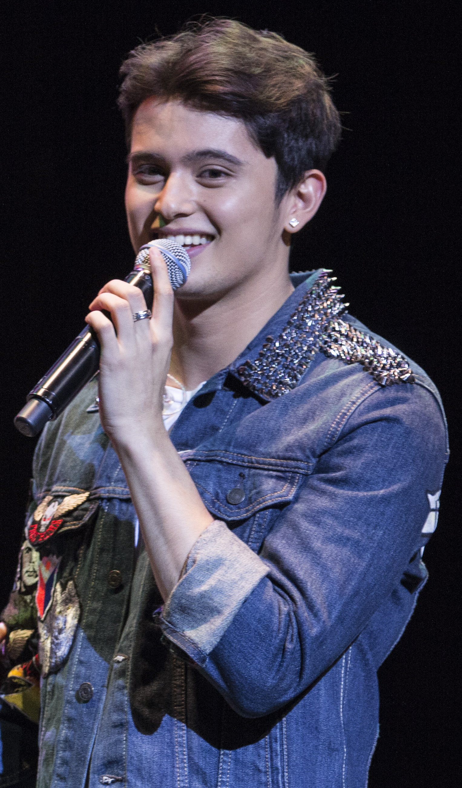 James Reid & Nadine Lustre "High on Love Canada Tour 2016" Winnipeg.